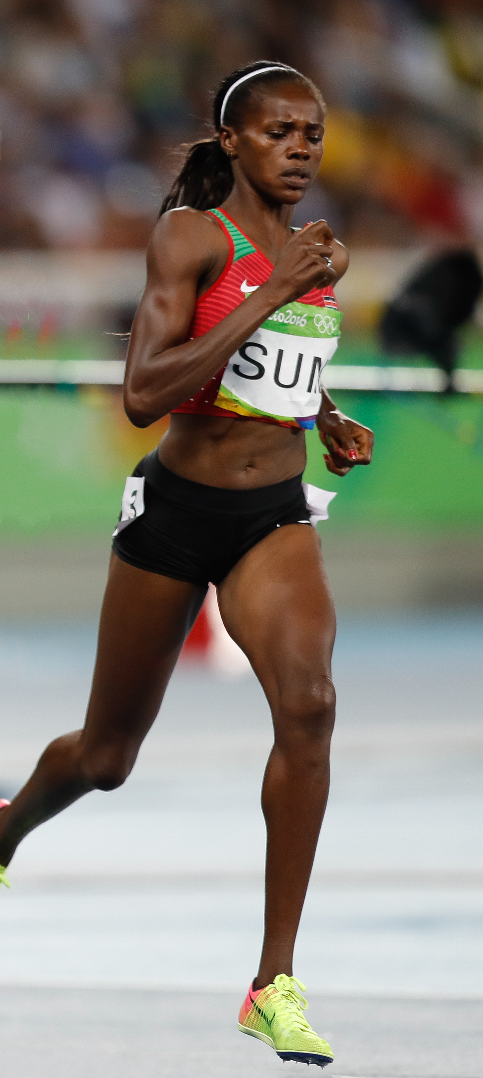 Rio de Janeiro - Semifinais dos 800m feminino nos Jogos Rio 2016, no Estádio Olímpico. (Fernando Frazão/Agência Brasil)